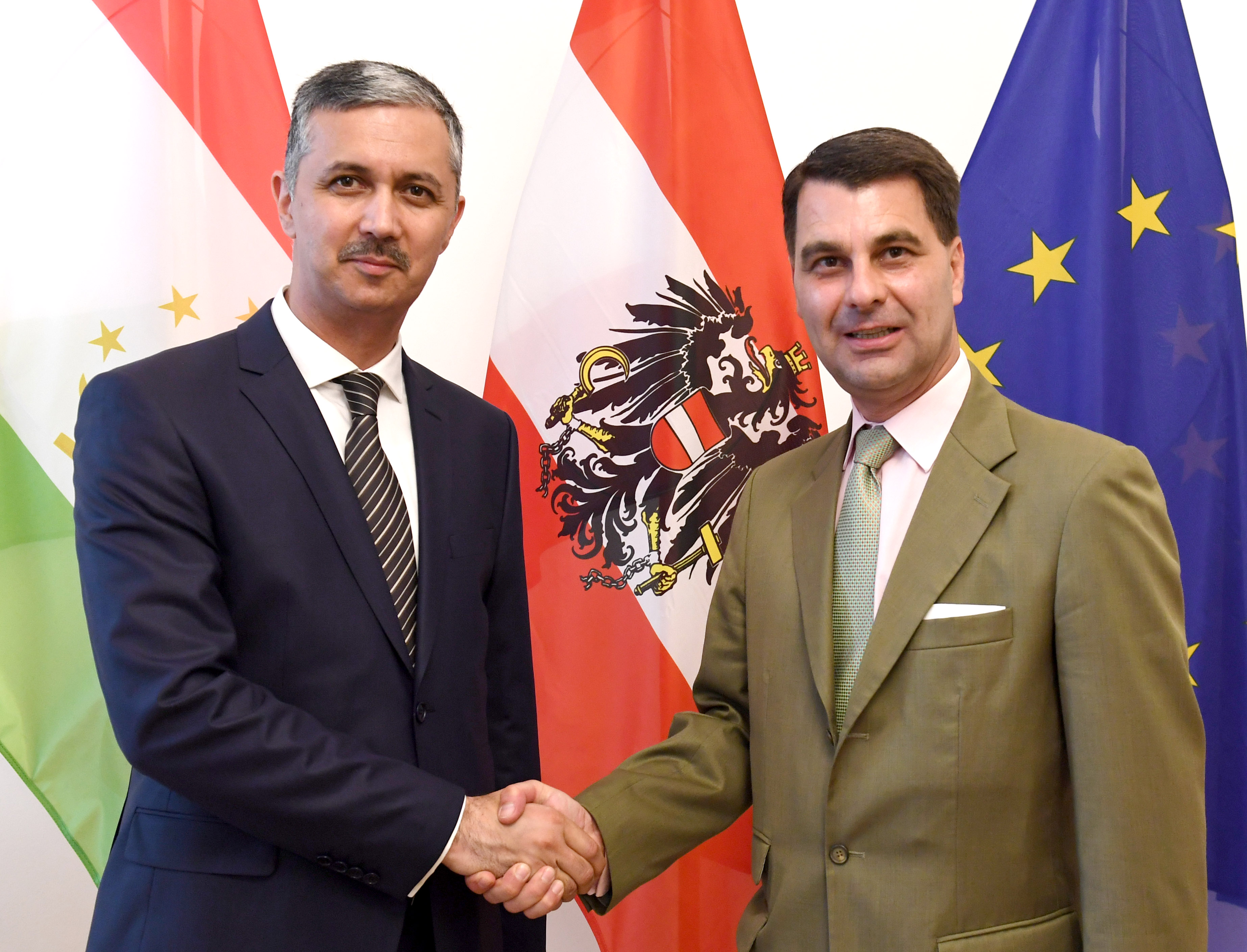 Johannes Peterlik, Secretary General for Foreign Affairs (Austria) meets the Deputy Minister of Foreign Affairs of Tajikistan (Vienna, 18 July 2018).